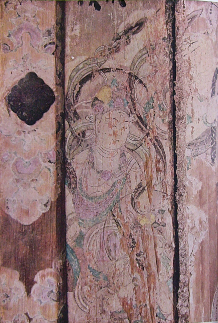 Wall Painting on South door of BYODOIN, Detail, ACE1053, UJI, KYOTO, Japan